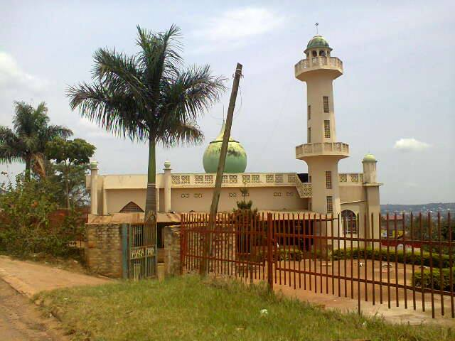 Main Mosque In Masaka downtown